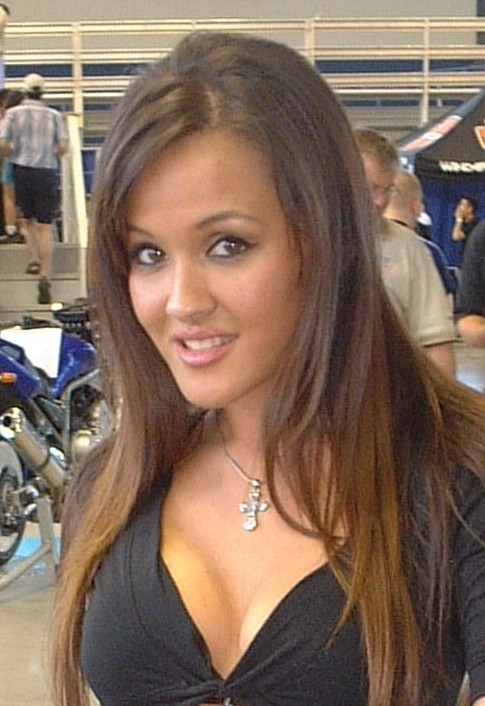 Crystal Lowe @ Driven To Perform on Saturday, May 28 2005